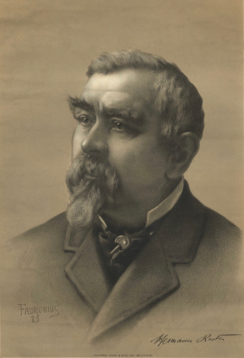 A lithograph of German American editor and political figure Hermann Raster (1827-1891) by lithographer Dominique C. Fabronius